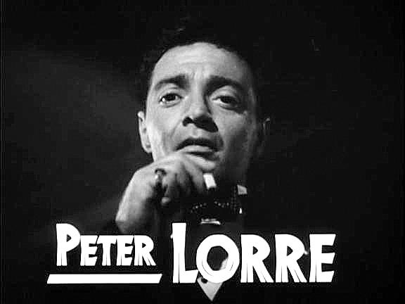 Frame from the 1941 public domain trailer for the Warner Bros. film The Maltese Falcon showing Peter Lorre with his name in type.